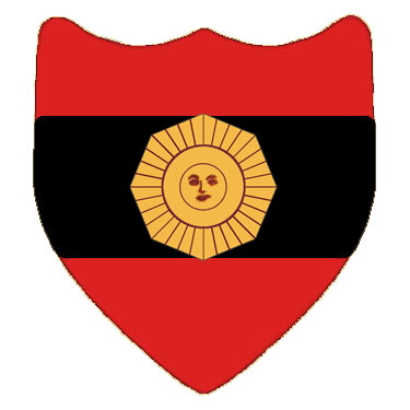 The shield(emblem) of the Central Command of the Indian Army